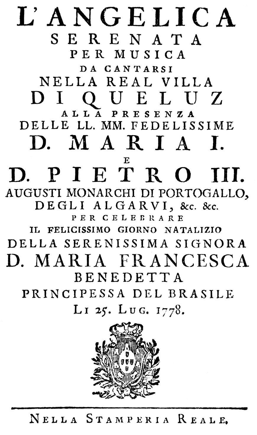 João de Sousa Carvalho - Angelica - titlepage of the libretto - Lissabon 1778